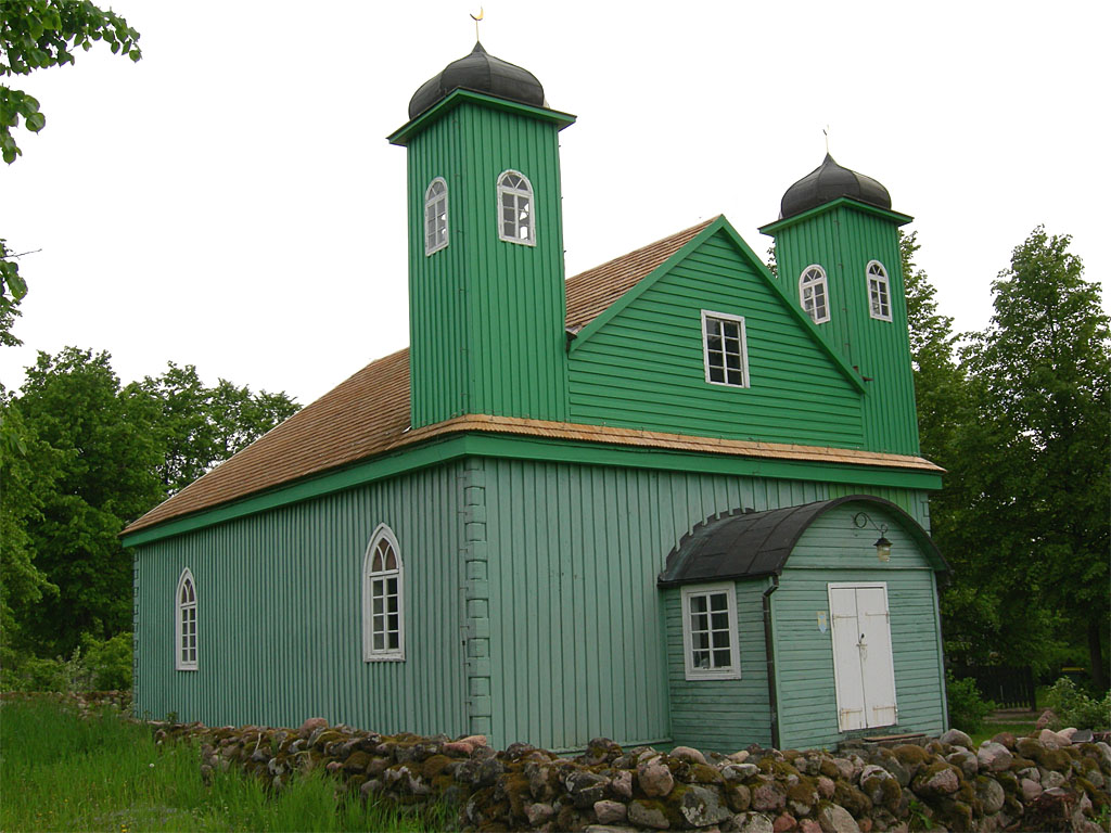 Mosque founded in the 18th century by Lipka Tatars in Kruszyniany village, Poland. One of the oldest mosques in Poland.